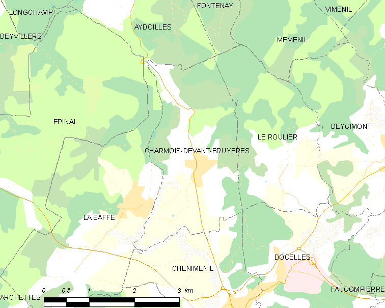 Map of French municipality Charmois-devant-Bruyères